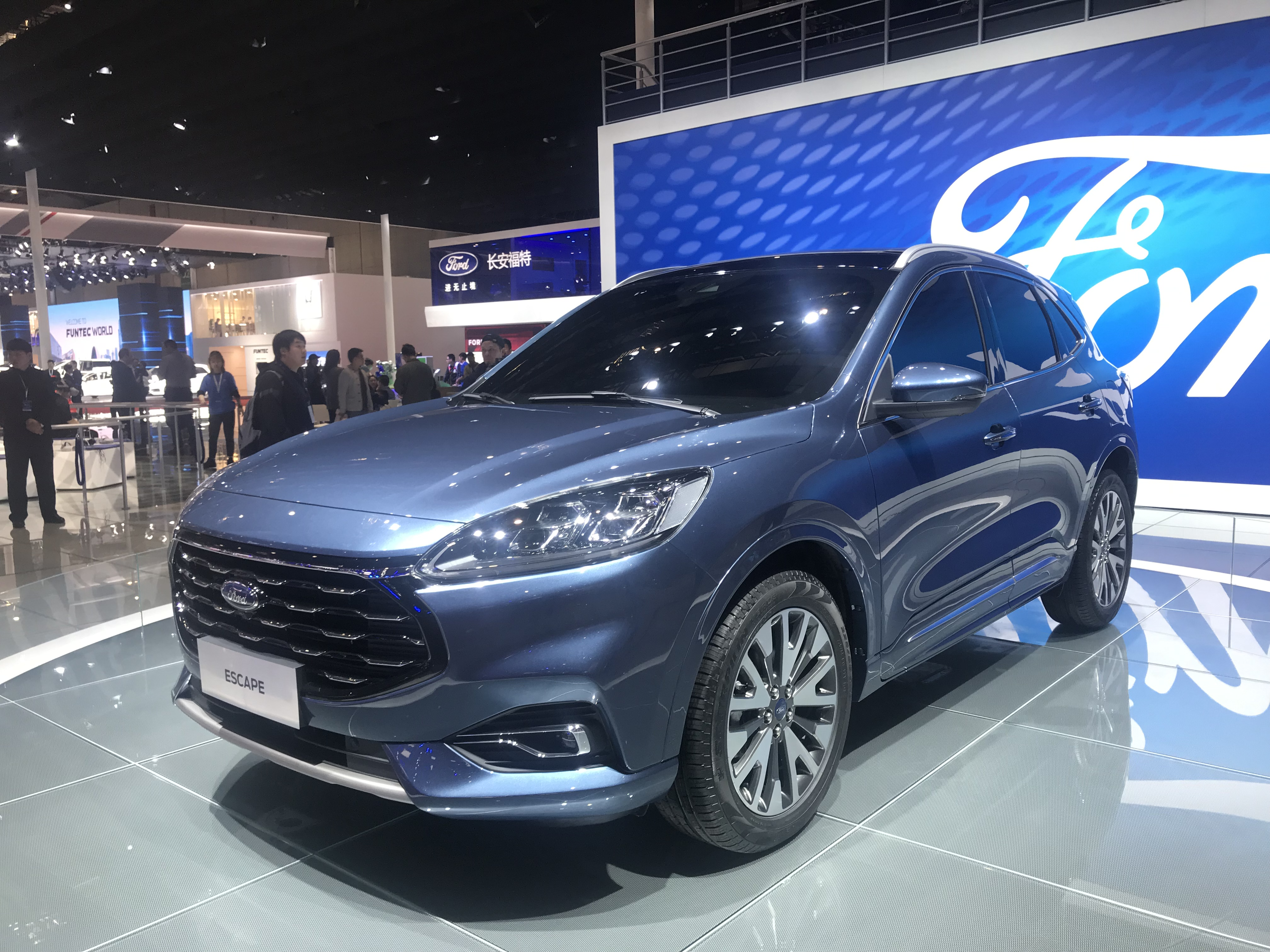 Chinese Ford Escape front